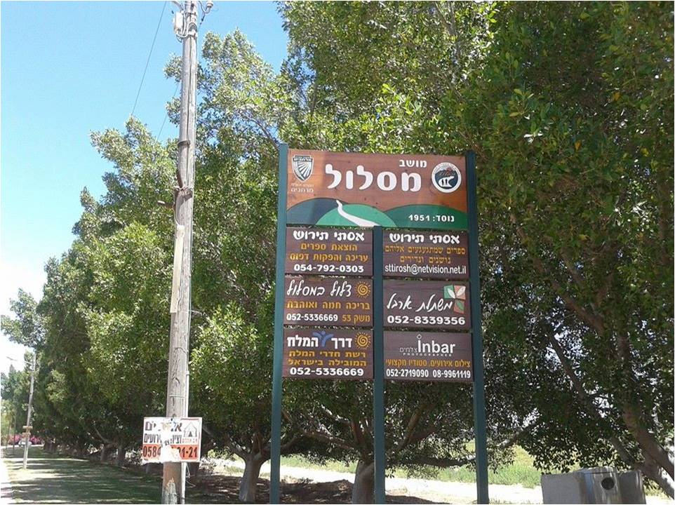 Sign at the entrance to the village Maslul, northern Negev, Israel